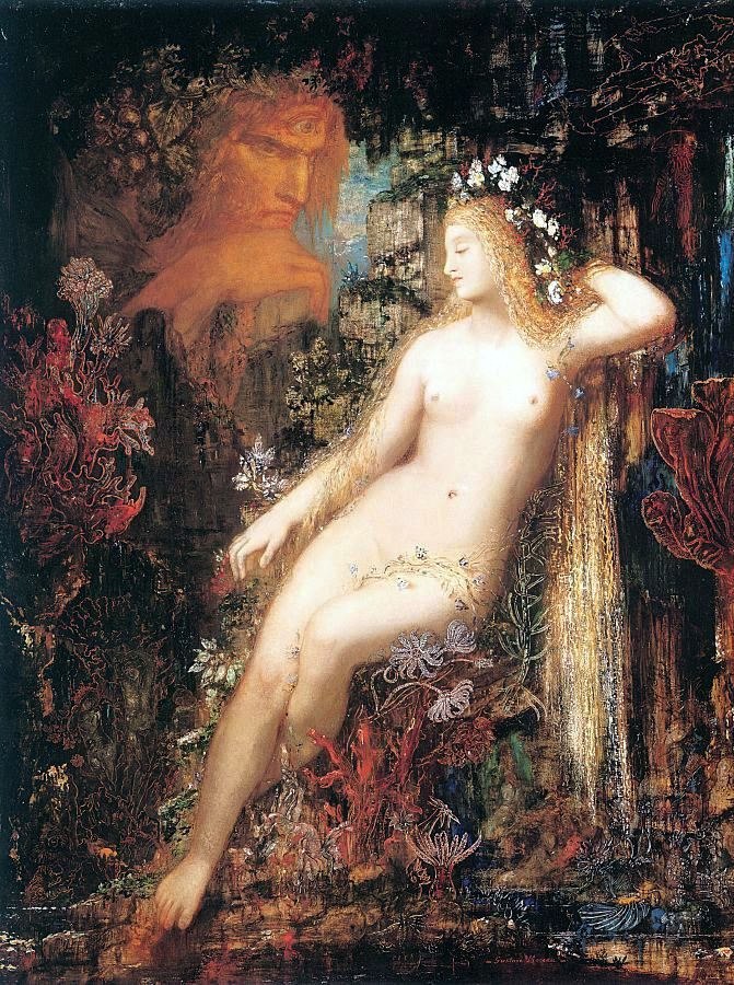 The giant Polyphemus spying on the sleeping nymph Galatea